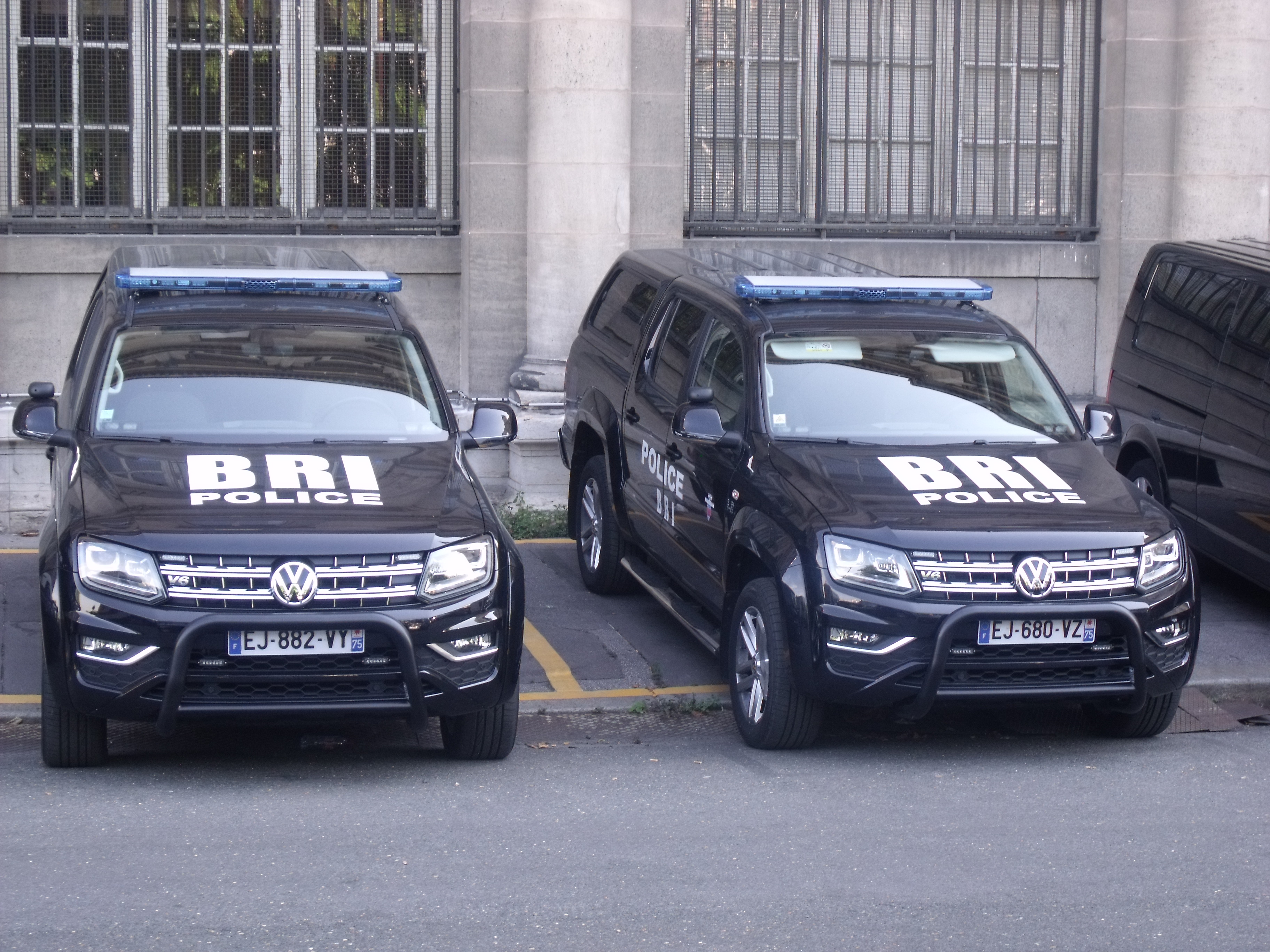 This kind of cars is used by the BRI, counter-terrorist unit of Parisian Police.